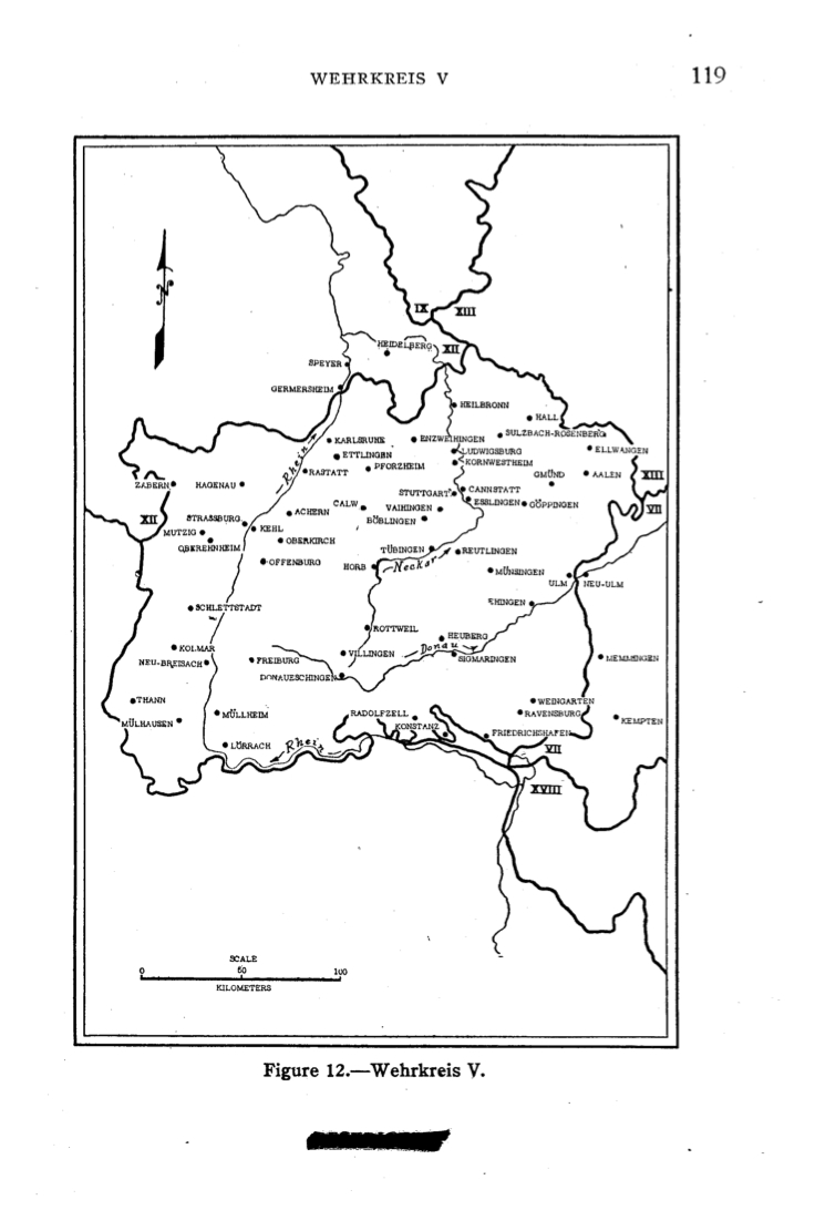 Map of the Wehrkreis, Military District, V.